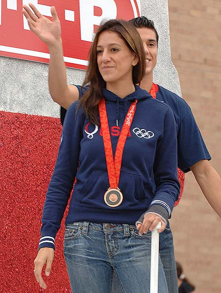 Cropped version of Diana Lopez at the HEB Parade 2008.